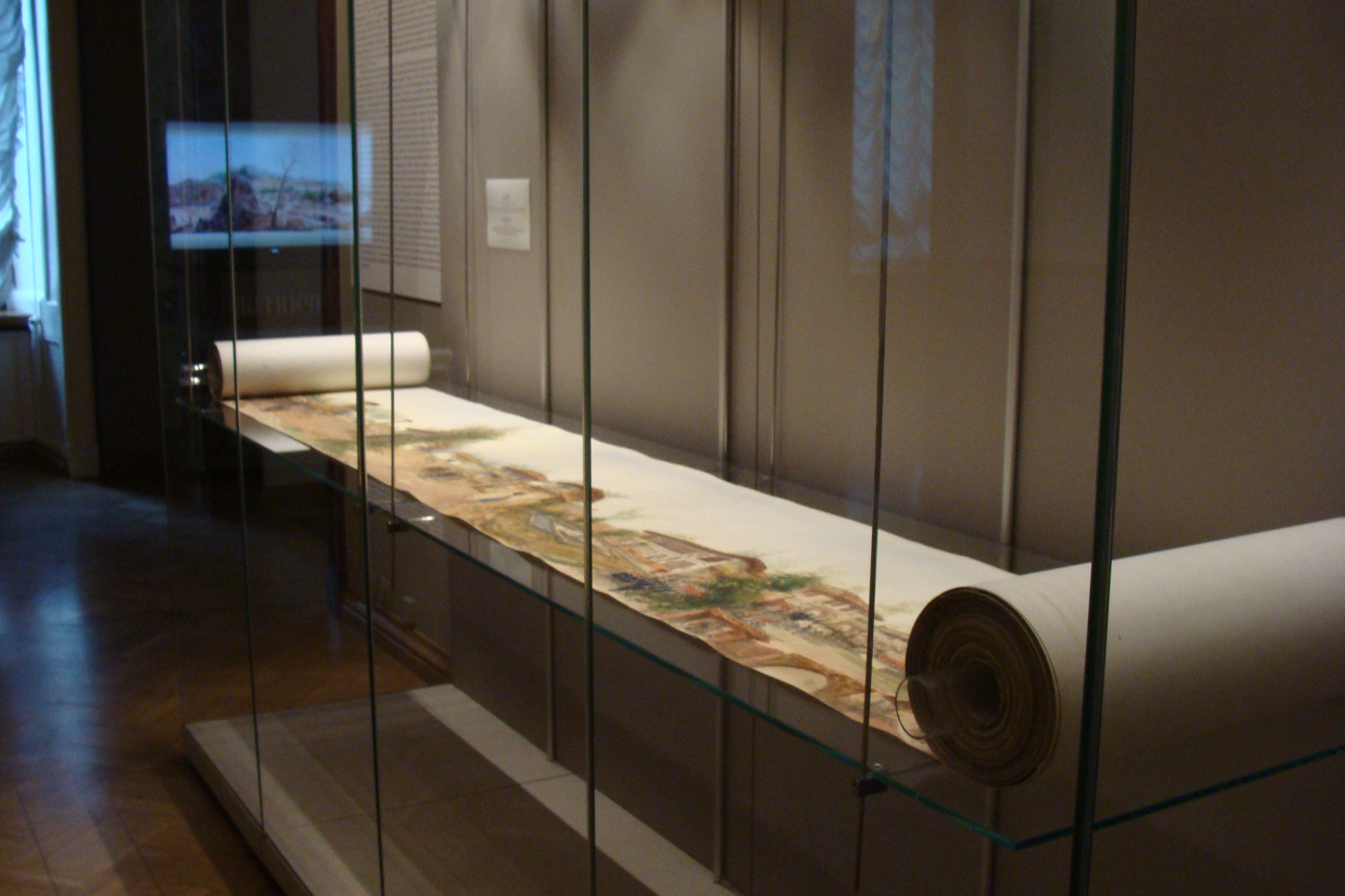 "Panorama of Persia" scroll by Pavel Piasetsky, finished in Feb. 1895 in Ashgabad. Paper, watercolour, white pigment and graphite pencil. The scroll measures 48.5 cm x 5925 cm [1]. Presently, it is the property of the State Hermitage Museum and went on display there in Sept. 2015 as part of the "Culture and art of Iran of the VIII-early XX centuries” exhibition (State Hermitage Museum), 2nd floor, room no 389.